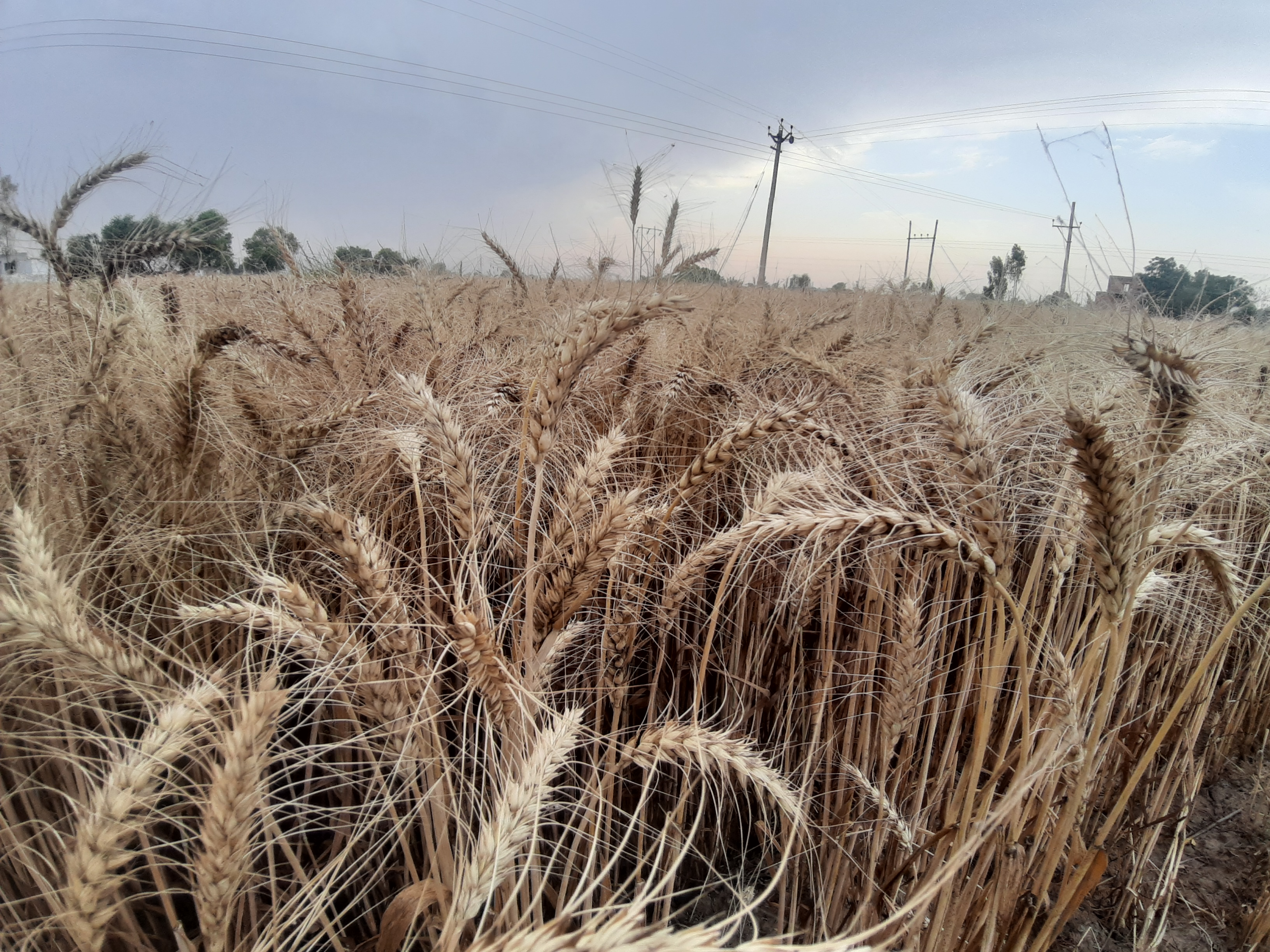 ਪੰਜਾਬ ਦੇ ਖੇਤਾਂ ਵਿਚ ਕਣਕ ਦੀ ਫ਼ਸਲ ਦੇ ਪੱਕ ਜਾਣ ਦਾ ਦ੍ਰਿਸ਼